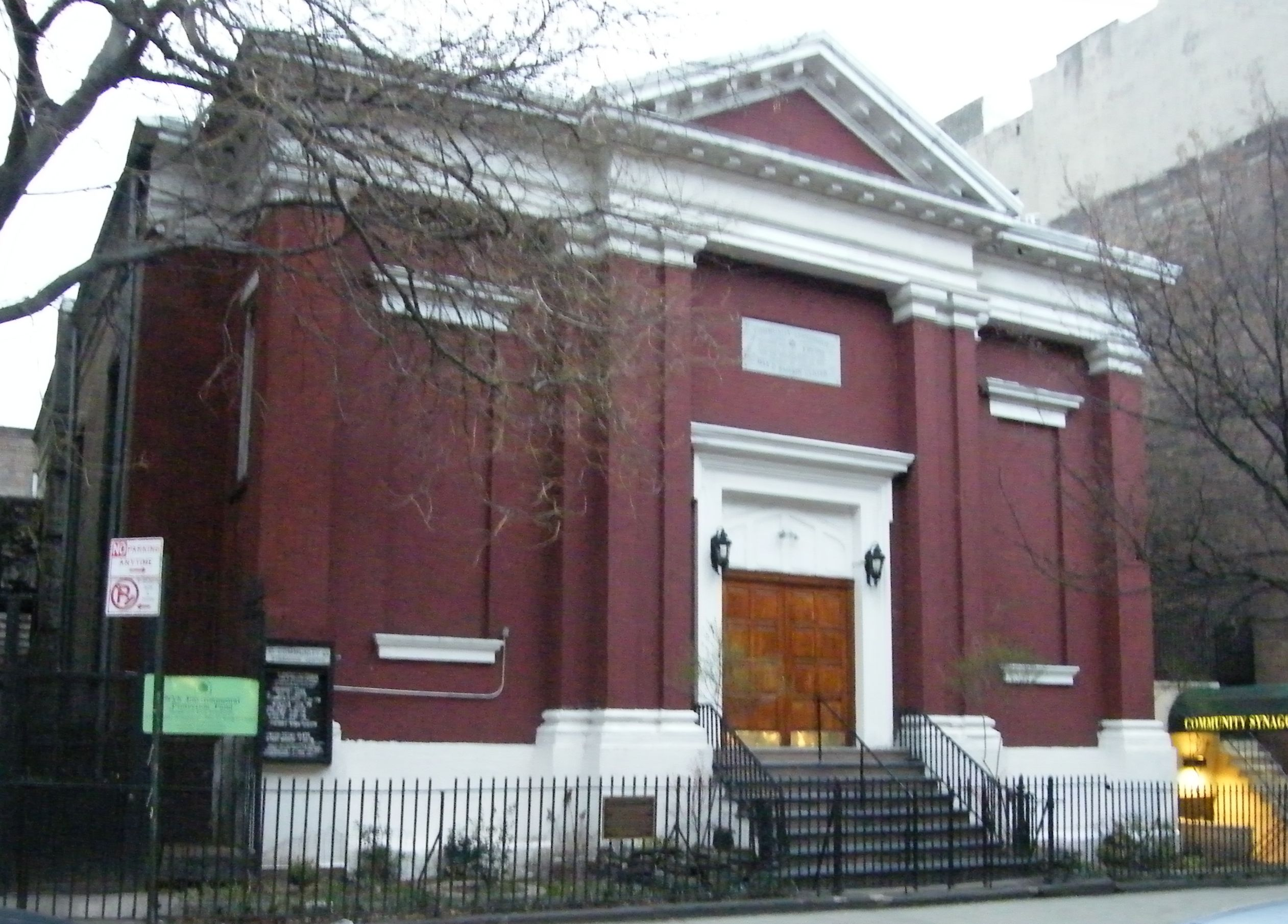 German Lutheran Church 323 East 6th on National Register of Historic Places in New York City